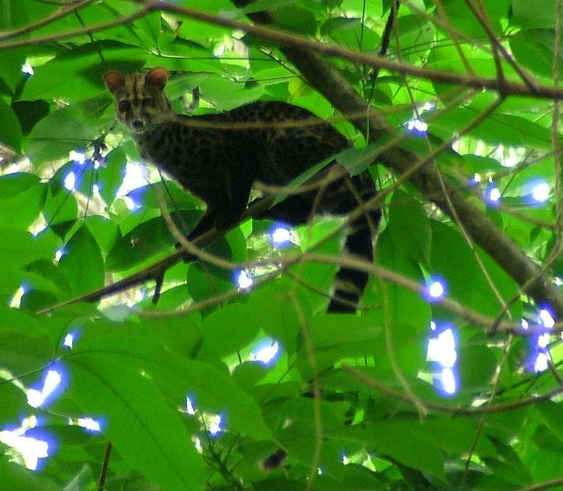 Servaline Genet, Cameroon